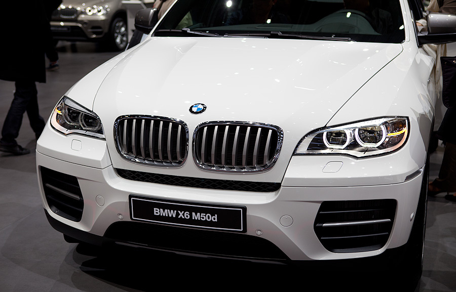 Motorshow Geneva 2012